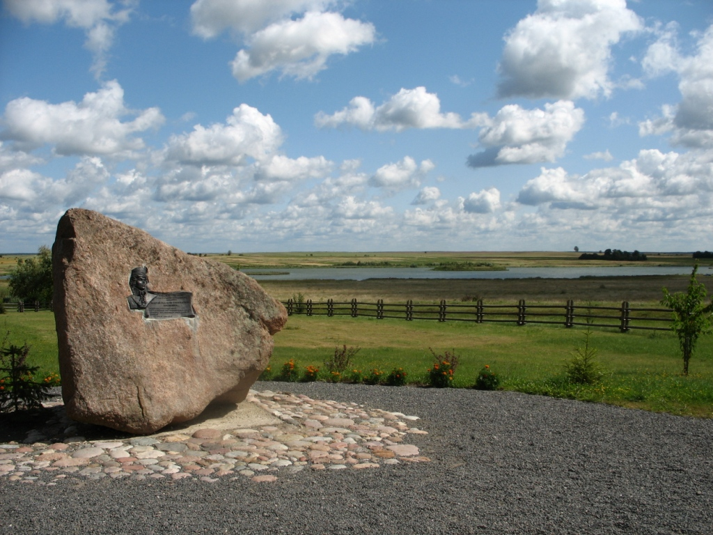 House of Kasciuška (Mieračoŭščyna), Belarus. Restauration